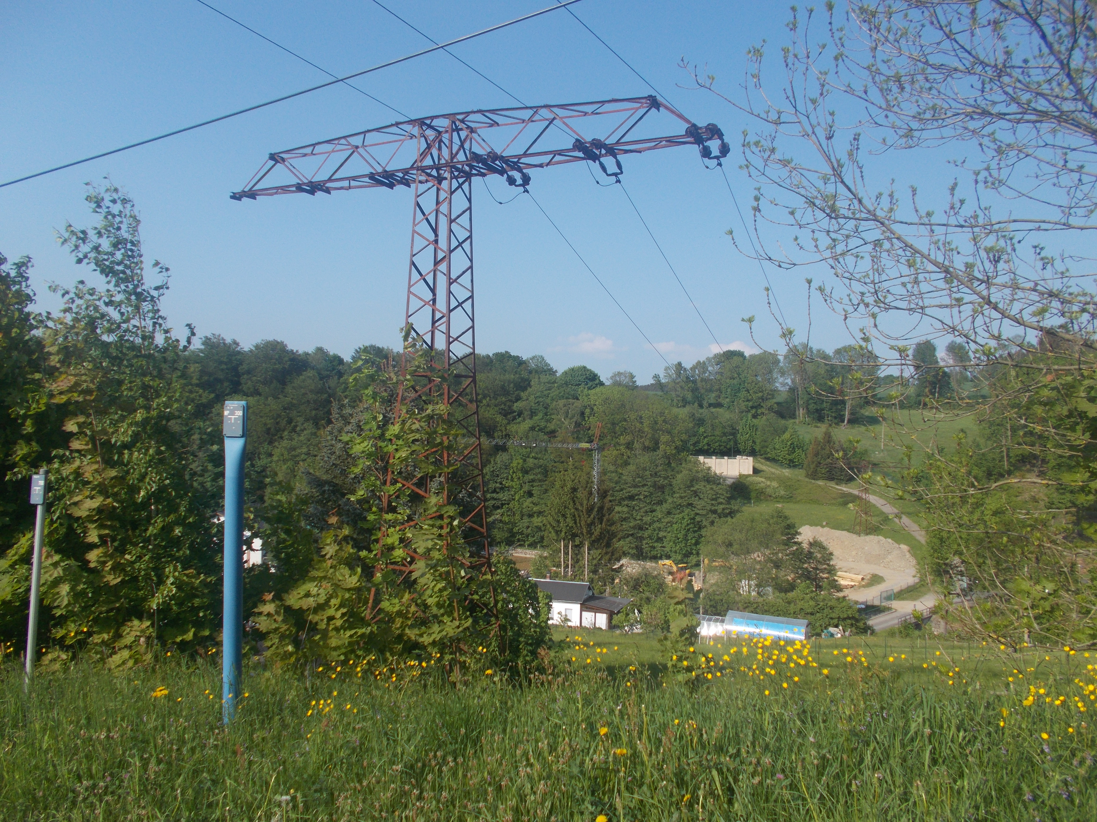 ~ 55 kV pylon in a typical east-german shape; Burkersdorf